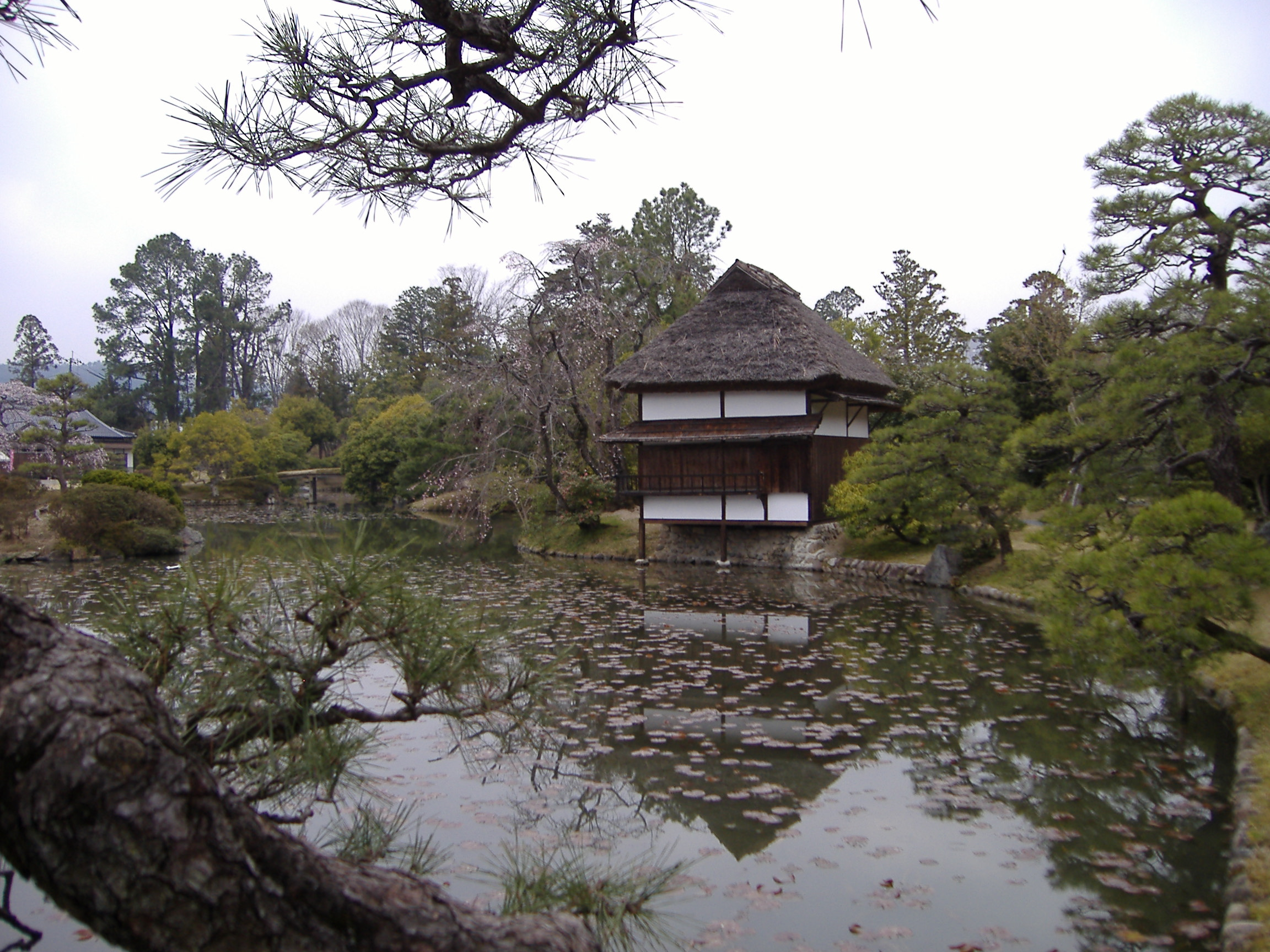 Picture of the pavilion over the pond at Shurakuen Garden, Tsuyama. Taken by me on 4th April 2006. To be added to Tsuyama, Japan entry.